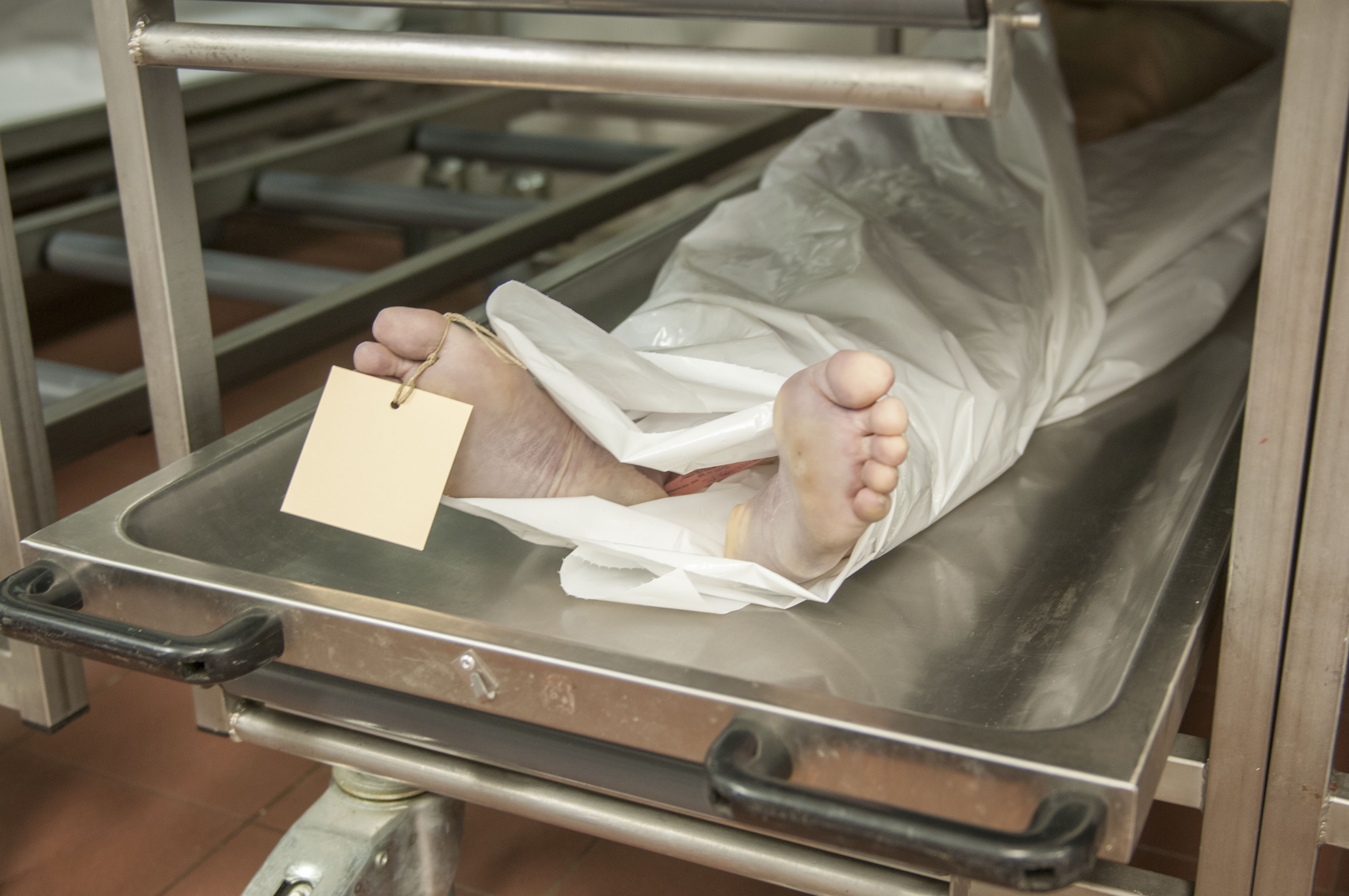 Storage of corpses in the fridge of Forensic Medicine at the Charité Berlin